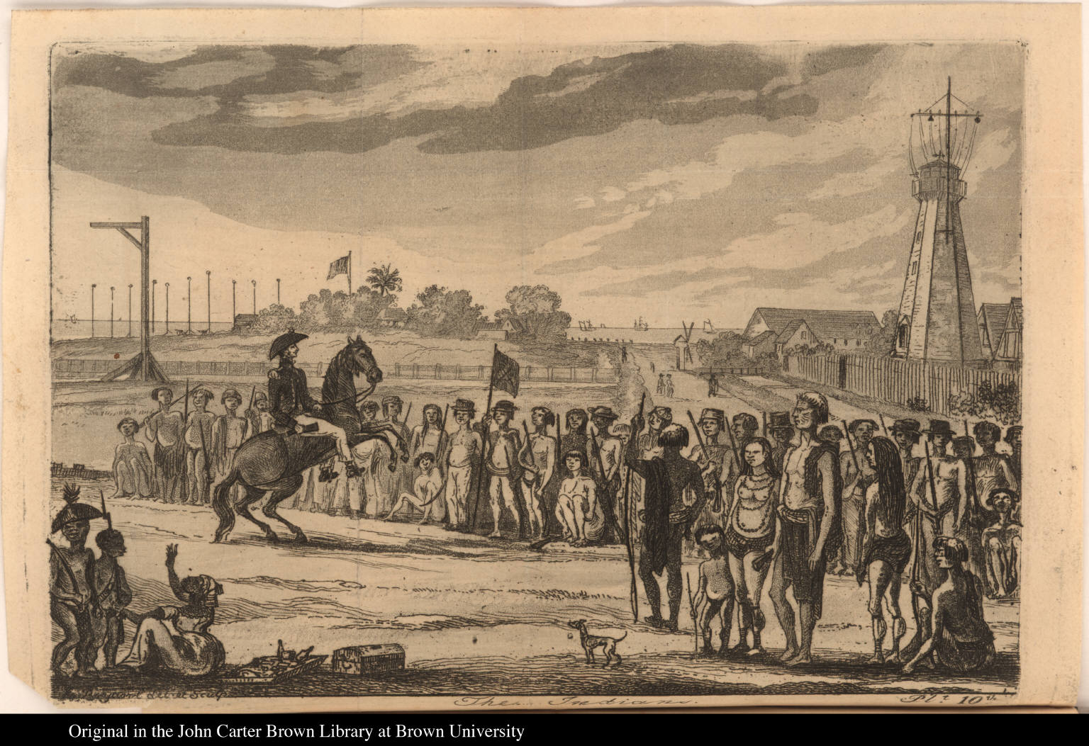 Account of an insurrection of the negro slaves in the colony of Demerara, which broke out on the 18th of August, 1823. Group of native Americans carrying sticks forms a semi-circle around a European officer on horseback. Also includes black woman and children [slaves], dog, gallows, poles, flags, tower, and palisade or fence.